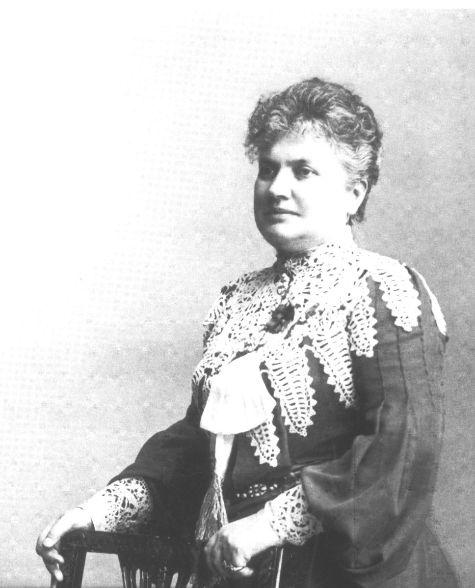 Wilhelmina Skogh around 1902 when she had became the managing director for Grand Hôtel in Stockholm.